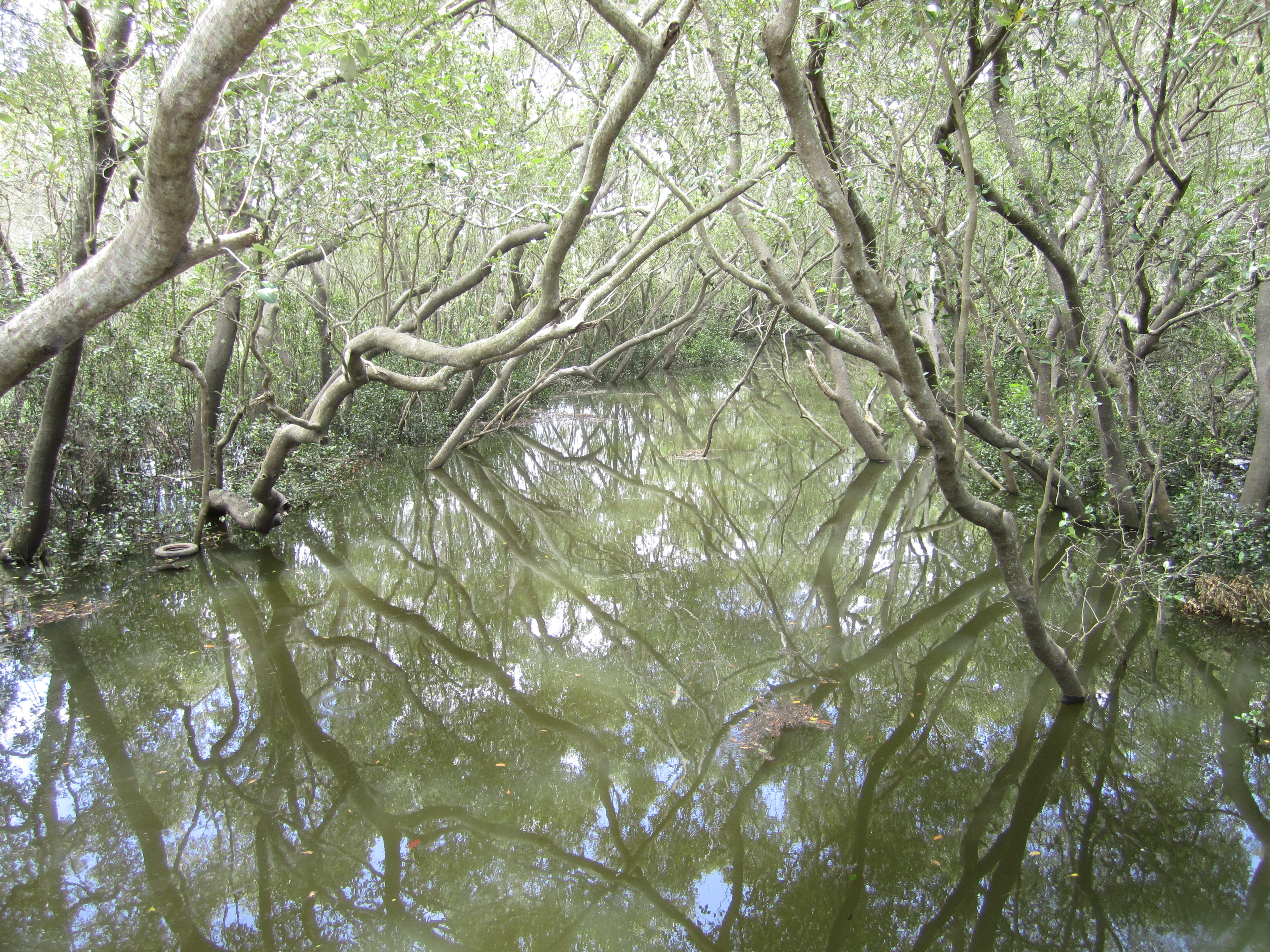 Saltwater Creek, in Redcliffe. The creek forms the southern and western borders of the suburb of Rothwell. This photograph was taken at the point where the creek is crossed by Anzac Avenue.